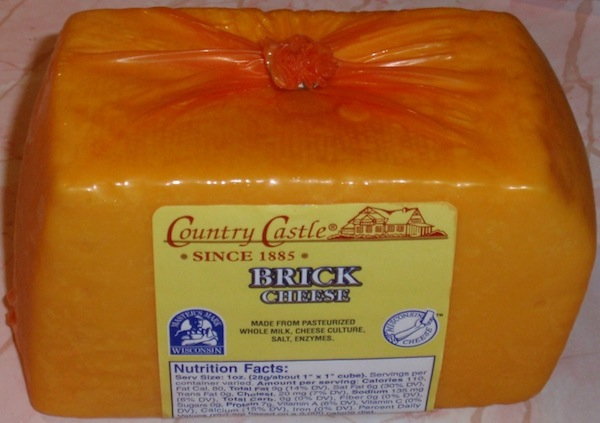 A 1.41 lb. package of brick cheese.